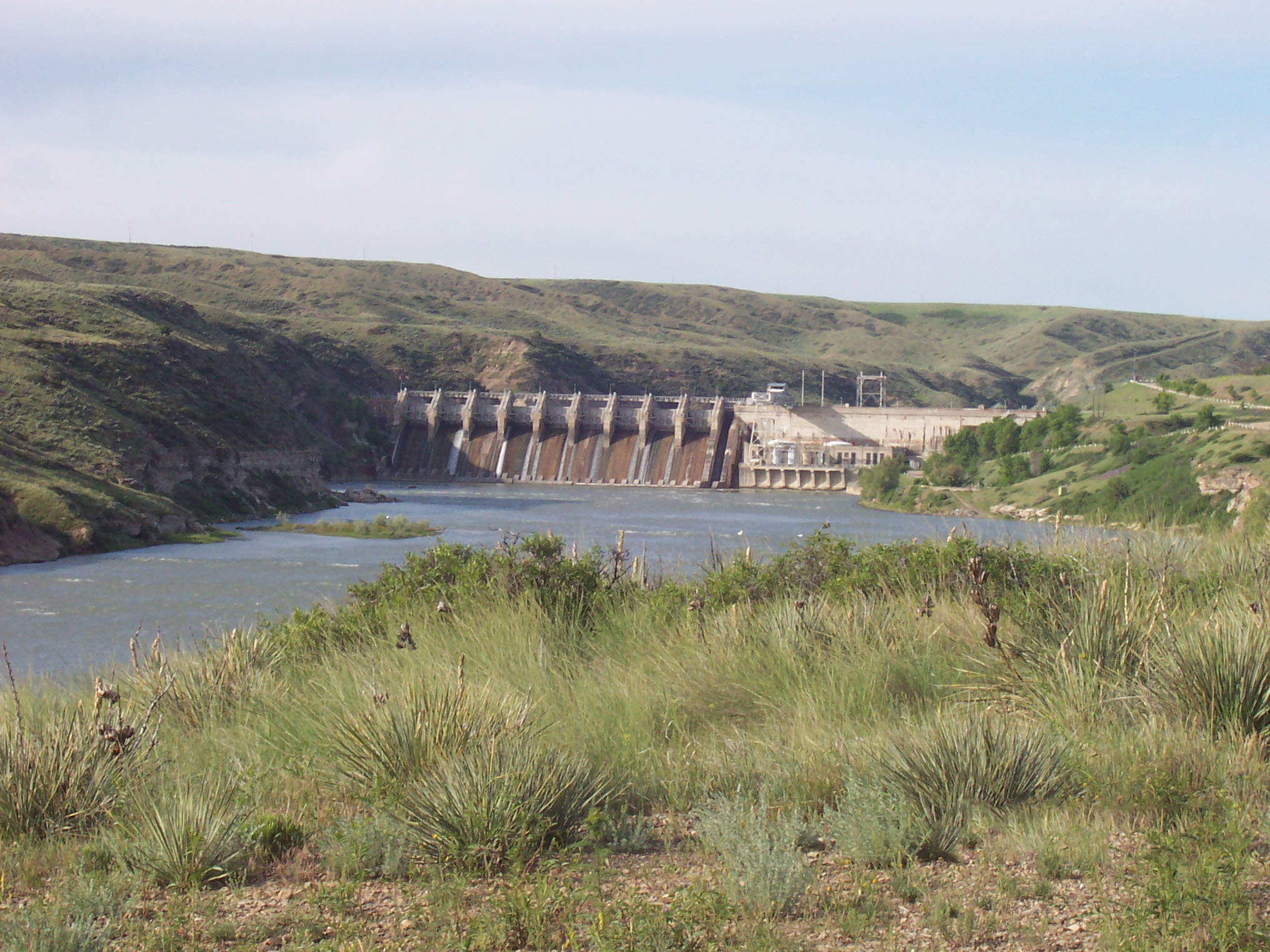 Morony Dam from the Sulphur Springs Trail (USFS Conservation Easement on state land near Great Falls), USFS Photo, K. McCartney